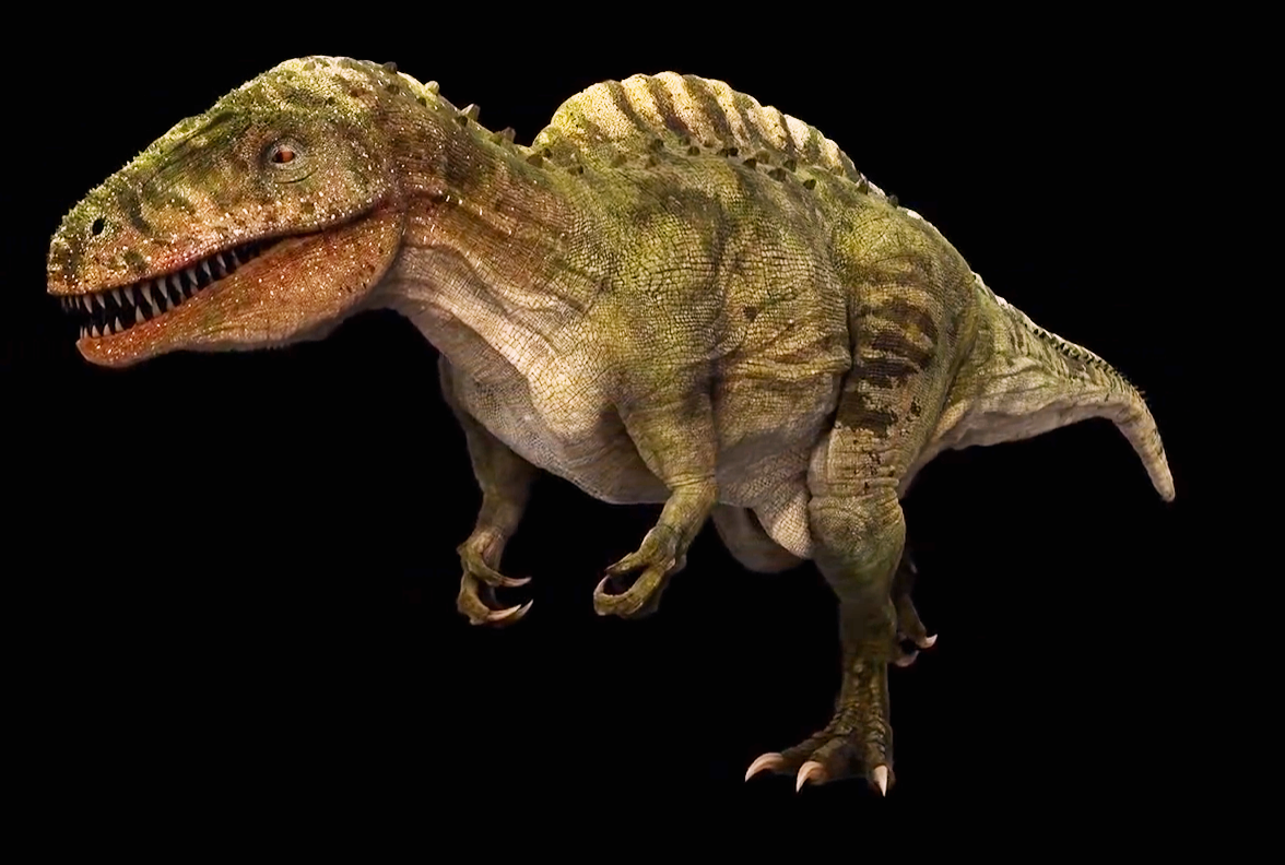 Dinosaur animation by Julian Johnson Mortimer.